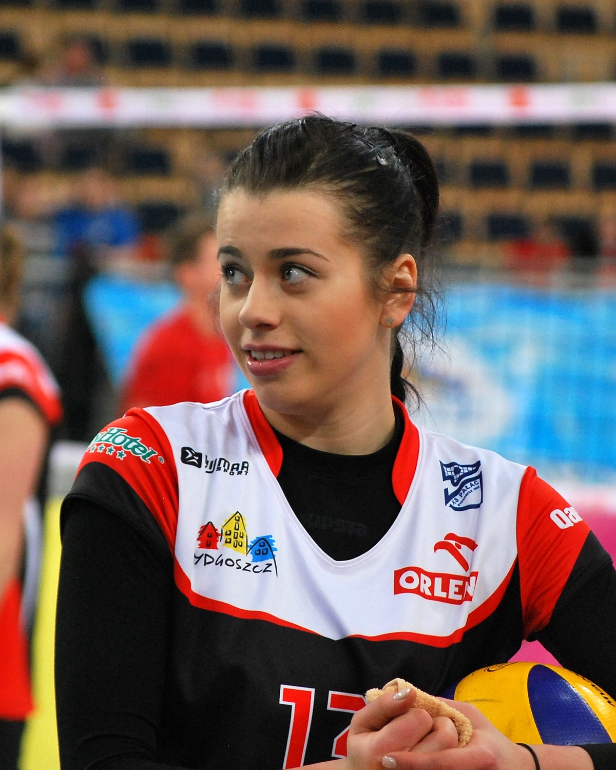 Paulina Bałdyga, volleyball player from Poland